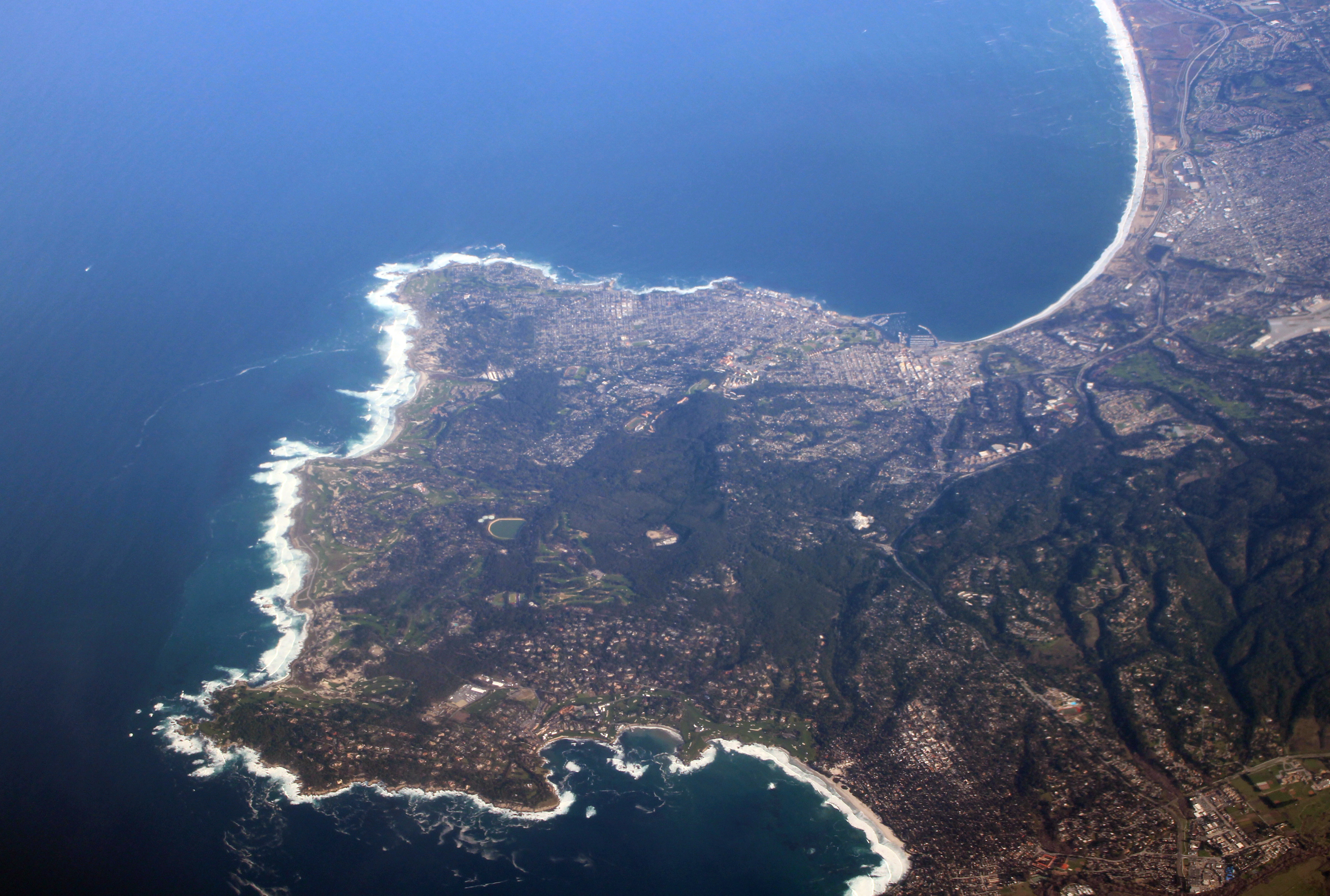 An aerial photograph of the Monterey Peninsula, taken from a passing jetliner. The color balance and contrast in this image have been adjusted to compensate for haze. Photographed by user Coolcaesar on January 29, 2020.